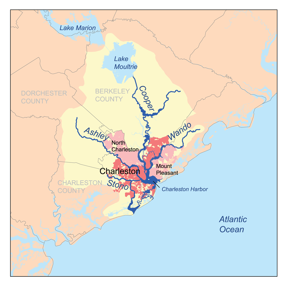 This is a map of the Charleston Harbor watershed, including the Ashley, Cooper, Wando and Stono rivers. I, Karl Musser, created it based on USGS and Census Bureau data.